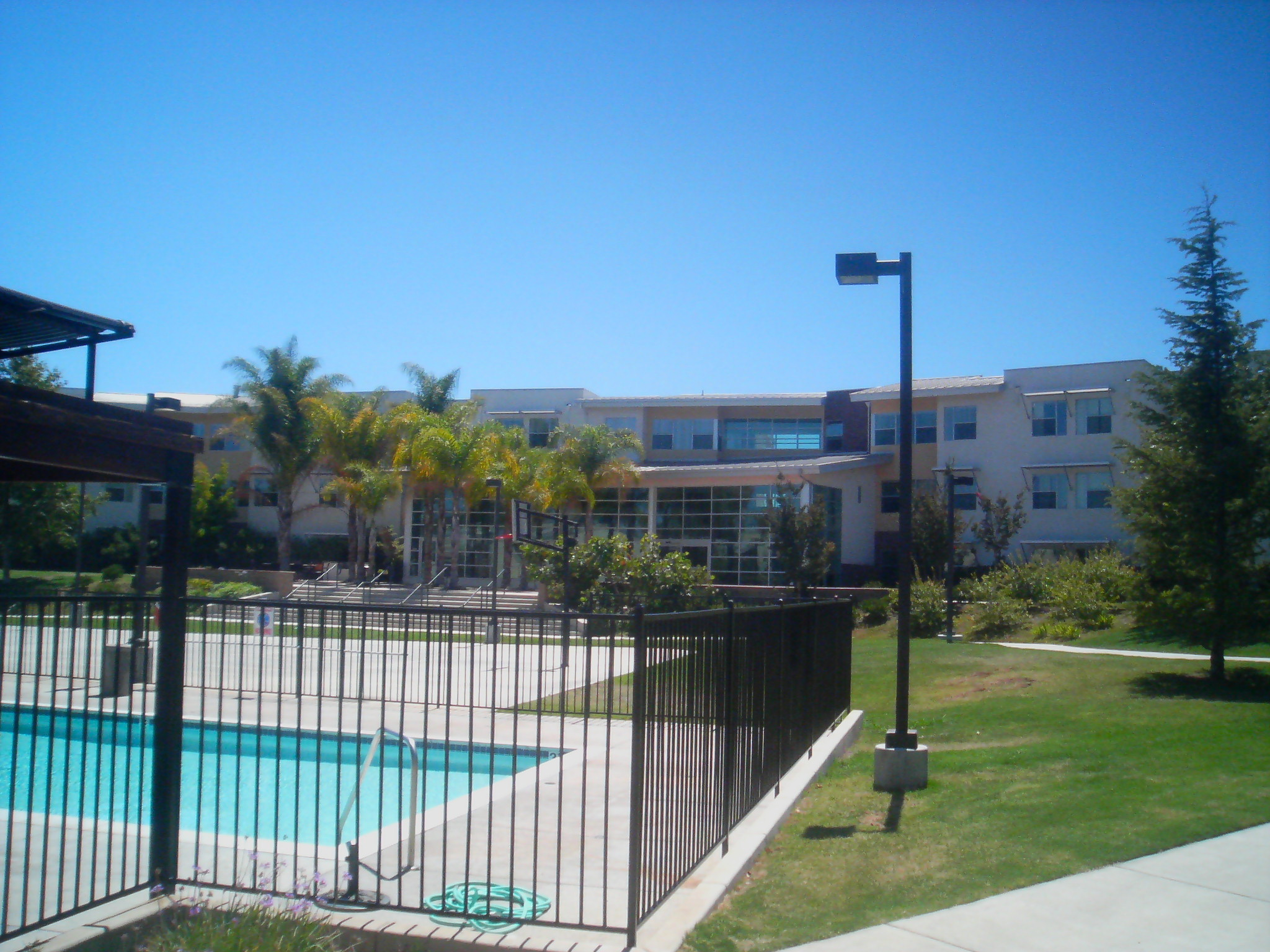 Swimming pool and basketball court in front of Grace Hall at California Lutheran University.